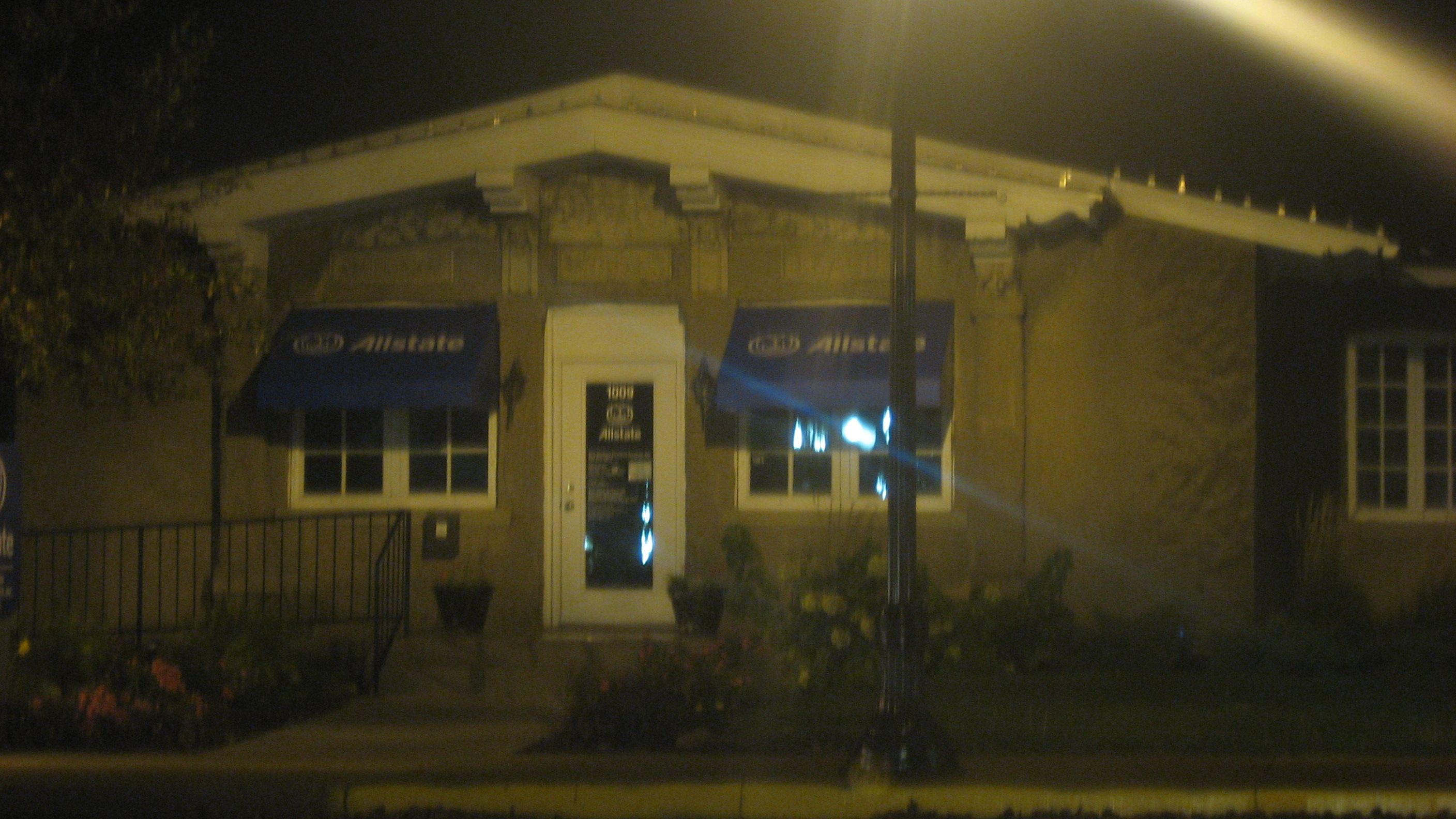 Front of the Princeton Chapter House of the American Women's League, located at 1007 N. Main Street (Illinois Route 26) in Princeton, Illinois, United States. Built in 1909, it is listed on the National Register of Historic Places.